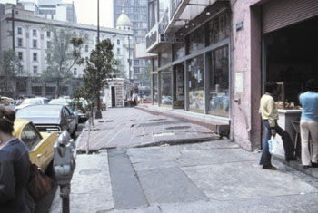 This building in Mexico City was built on piles to prevent it from settling into the soft lakebed deposits. The underlying aquifer has compacted beneath the building and the building appears to be “rising” out of the ground. Mexico City is one of the few subsidence areas where this effect is observed